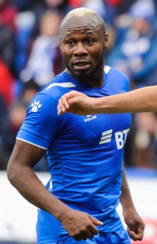 Sylvester Igboun with FC Dynamo Moscow in a game against PFC Sochi.